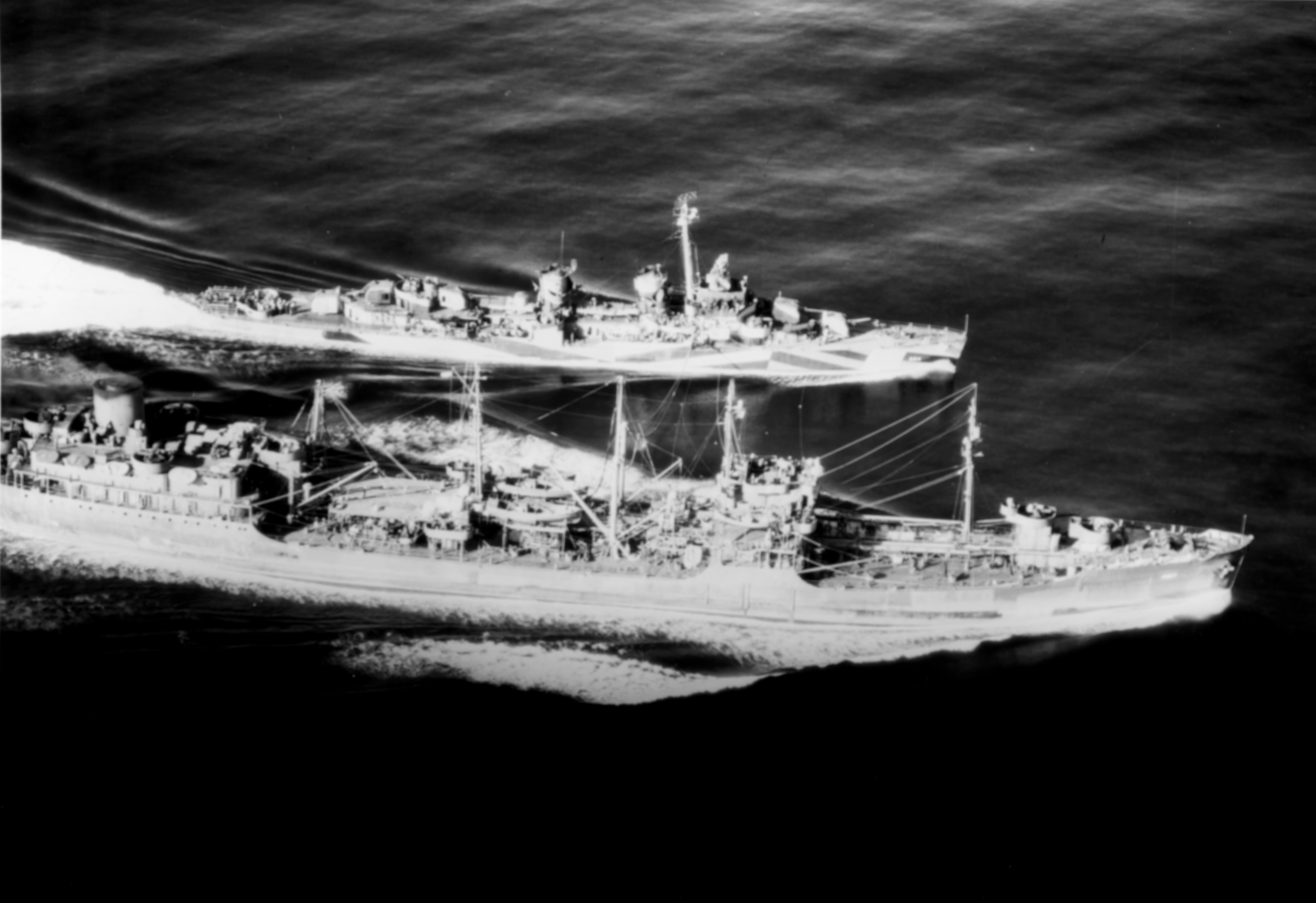 The U.S. Navy fleet oiler USS Kaskaskia (AO-27) and the destroyer USS Hart (DD-594) refueling at sea on 16 December 1944. This was one of a series of experimental refuelings conducted by these two ships during 12-23 December 1944 to develop improved fueling at sea techniques.